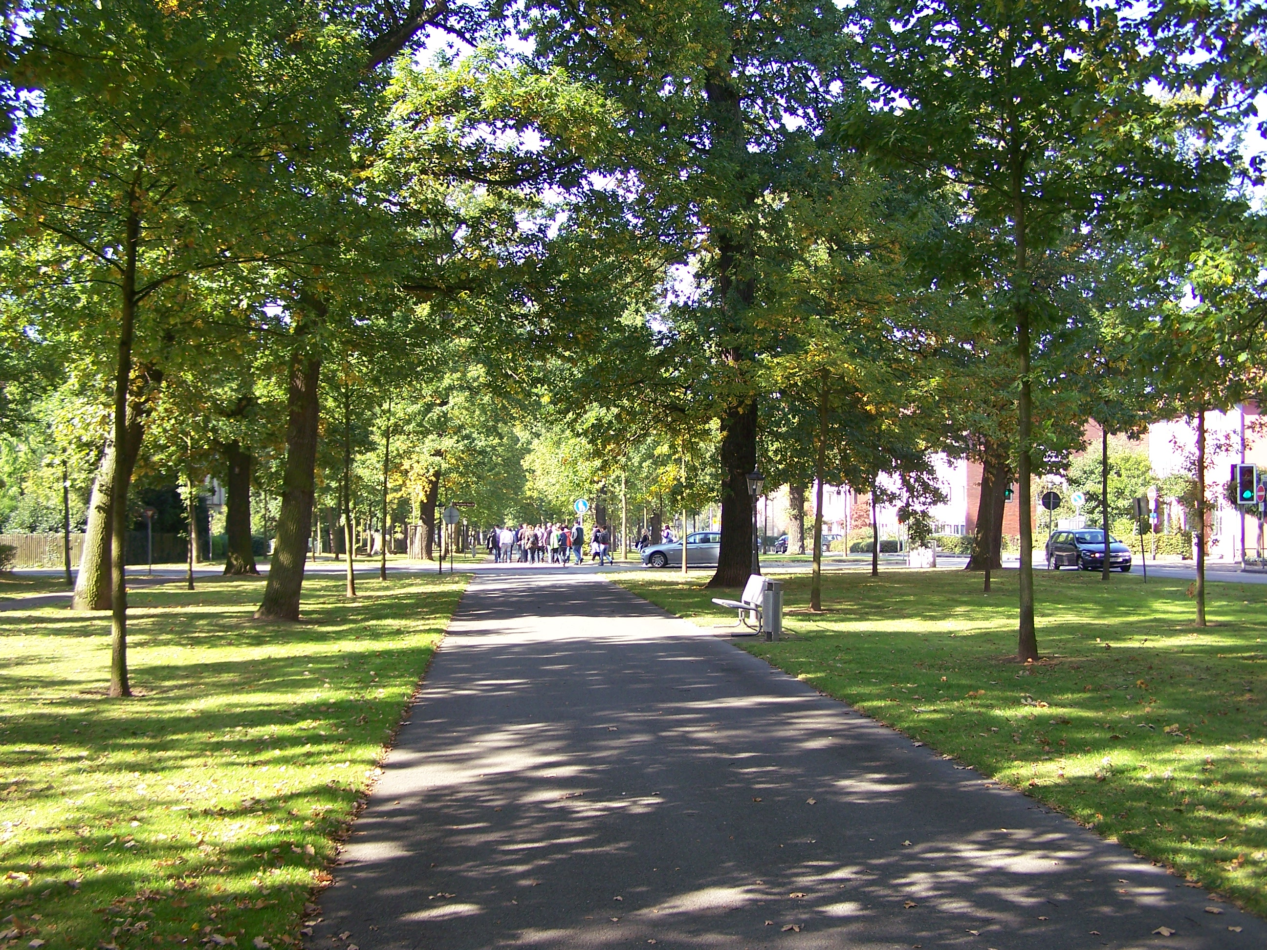 The "Grosse Allee" or "Grand Avenue" in Bad Arolsen, Hesse, Germany is a remarkable avenue built in 1676. About one mile long and running from east to west, it is lined by about 880 oak trees in a six-row alignment. Mostly during the summer months it invites scores of people for a stroll. The avenue was built as a prestigious connecting way for the carriages between the "Residenzschloss" and the princely "Lustschloss", the latter having been torn down in the year 1725.